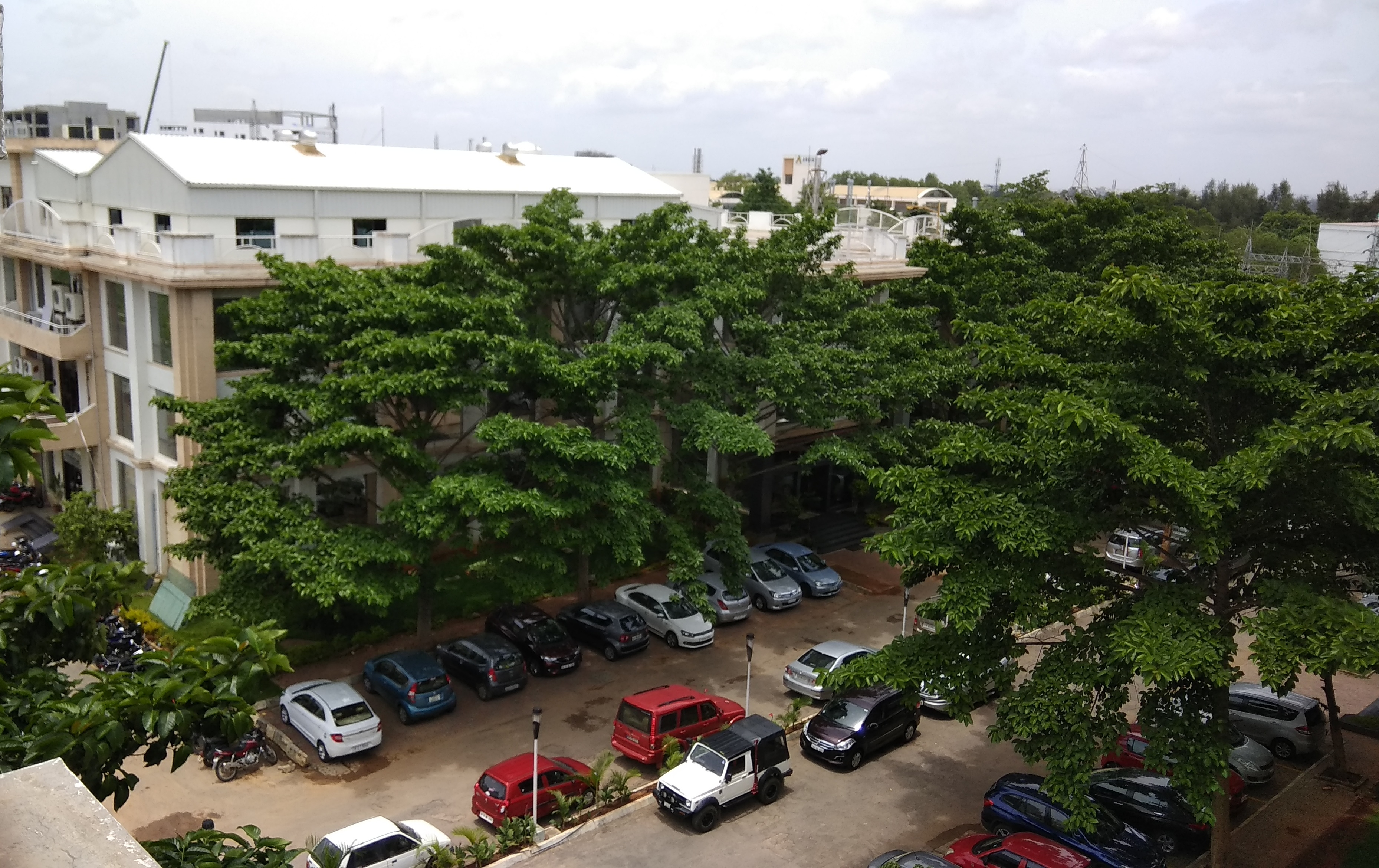 bird view of company